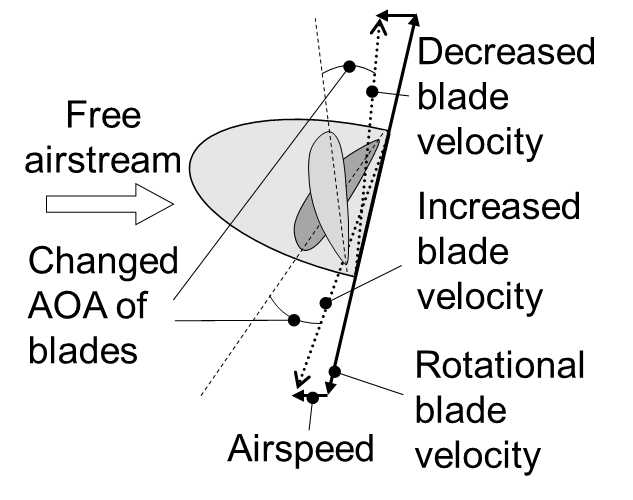 Change of forces at increasing Angle of Attack